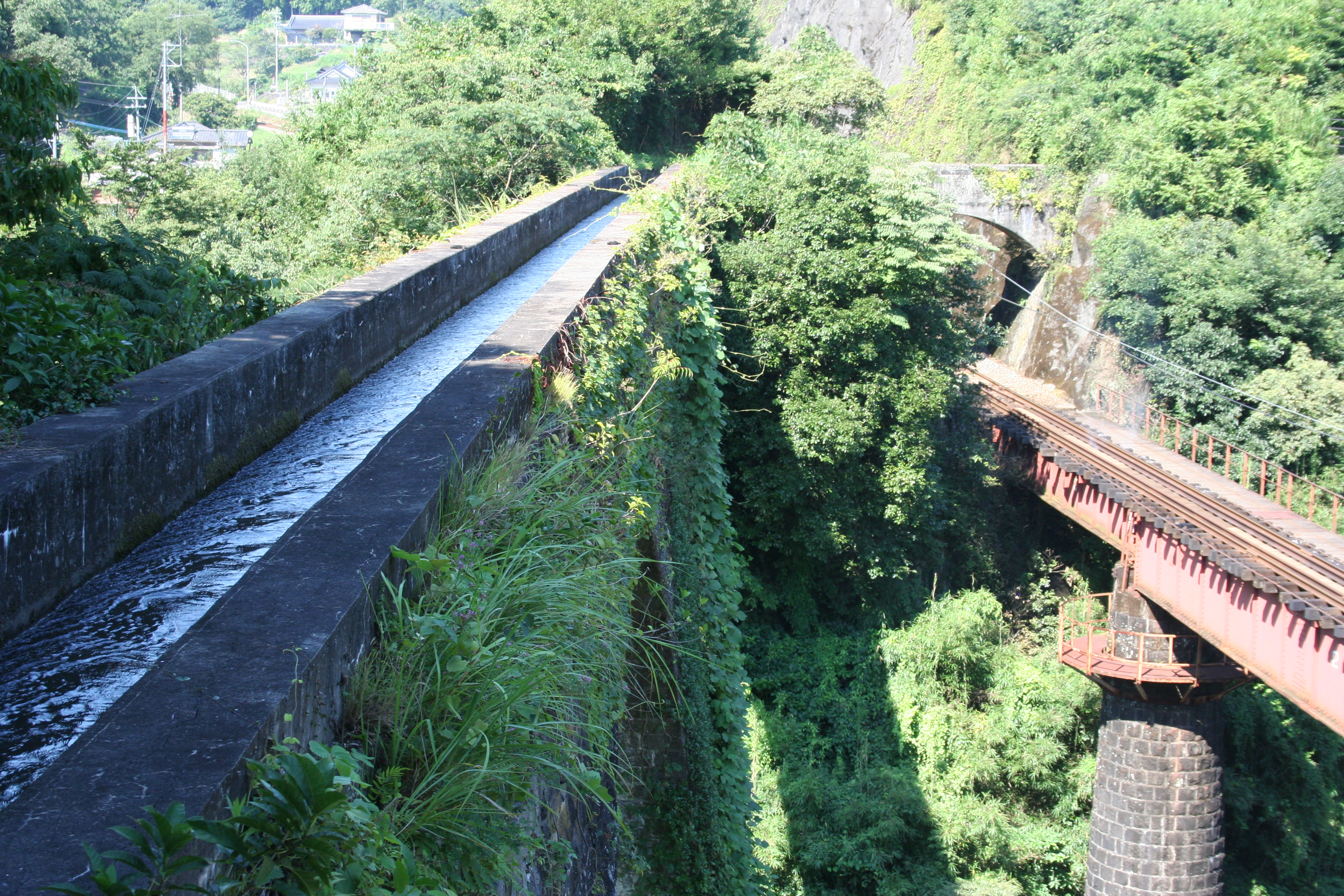 Sasamuta Stone Arch Water Bridge(1917). Taketa-city, Oita Prefecture, Japan. 若宮井路笹無田石拱橋。大分県竹田市にある石造2連アーチの水路橋。国の登録有形文化財。